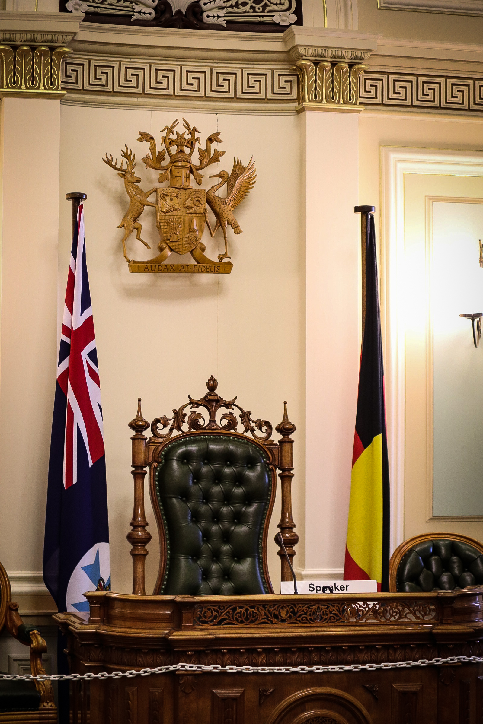 Speakers Chair Qld Parl